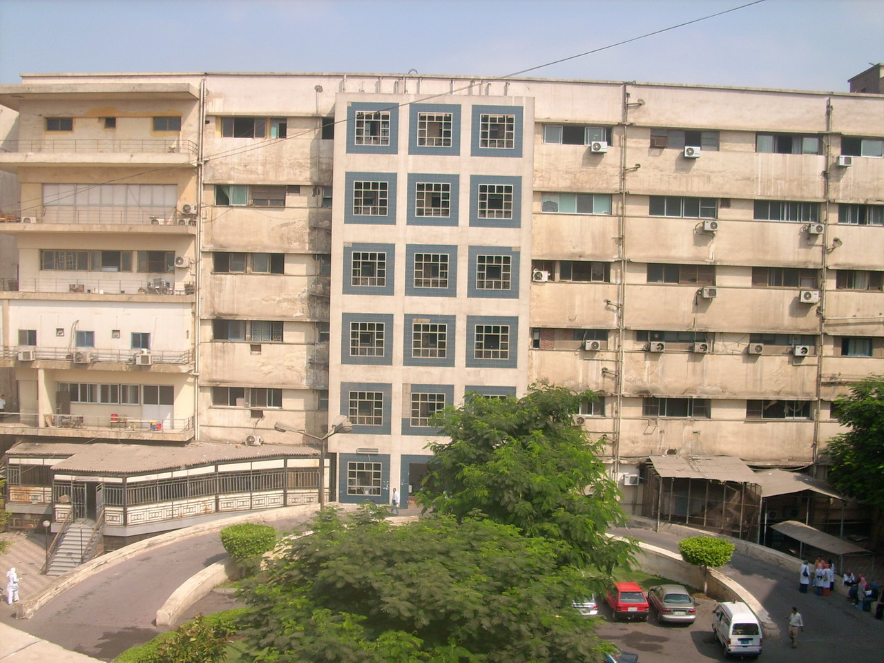 Ain Shams University hospital ER building